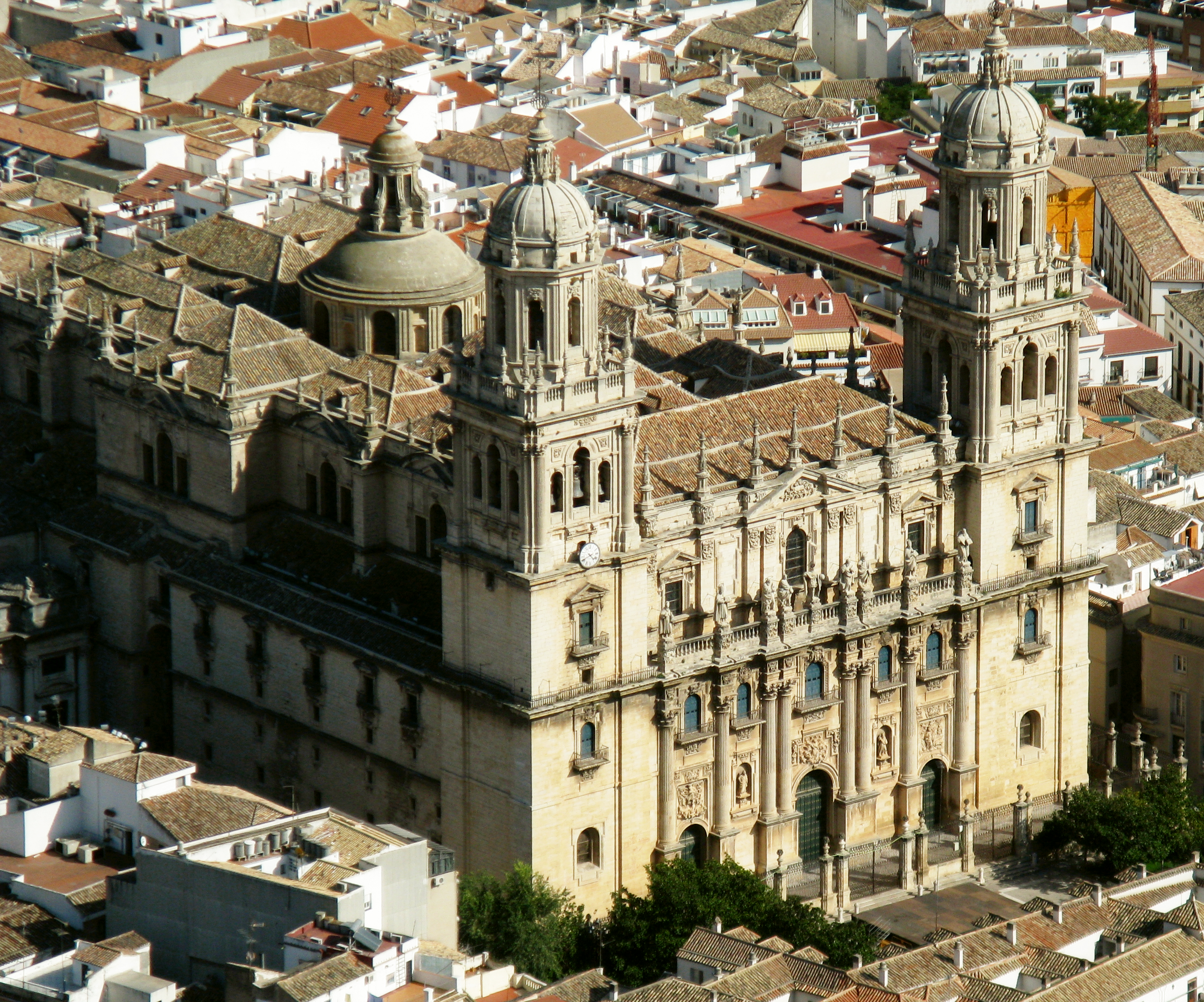 A view of the Cathedral of the Assumption at Jaén, taken from Saint Catalina's Castle.